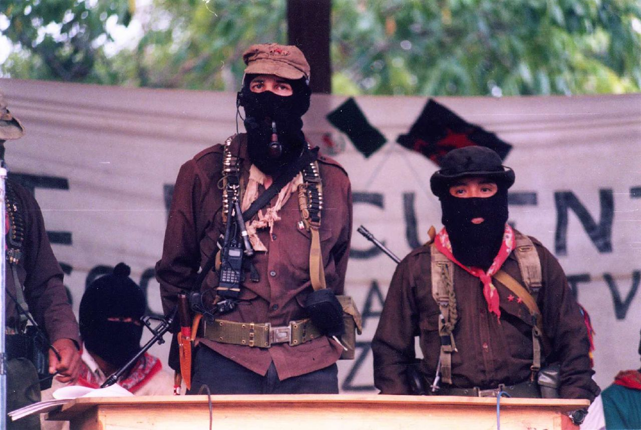 Subcomandante Marcos and Comandante Tacho in La Realidad, Chiapas, 1999.